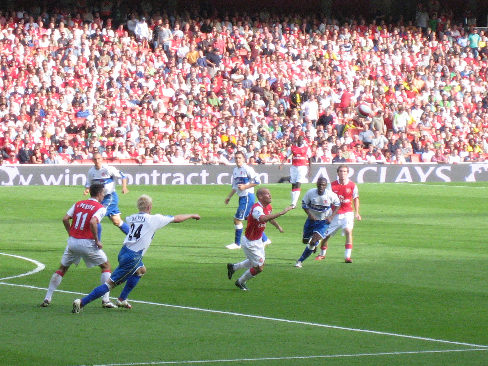 Arsenal-Middlesbrough at Emirates Stadium